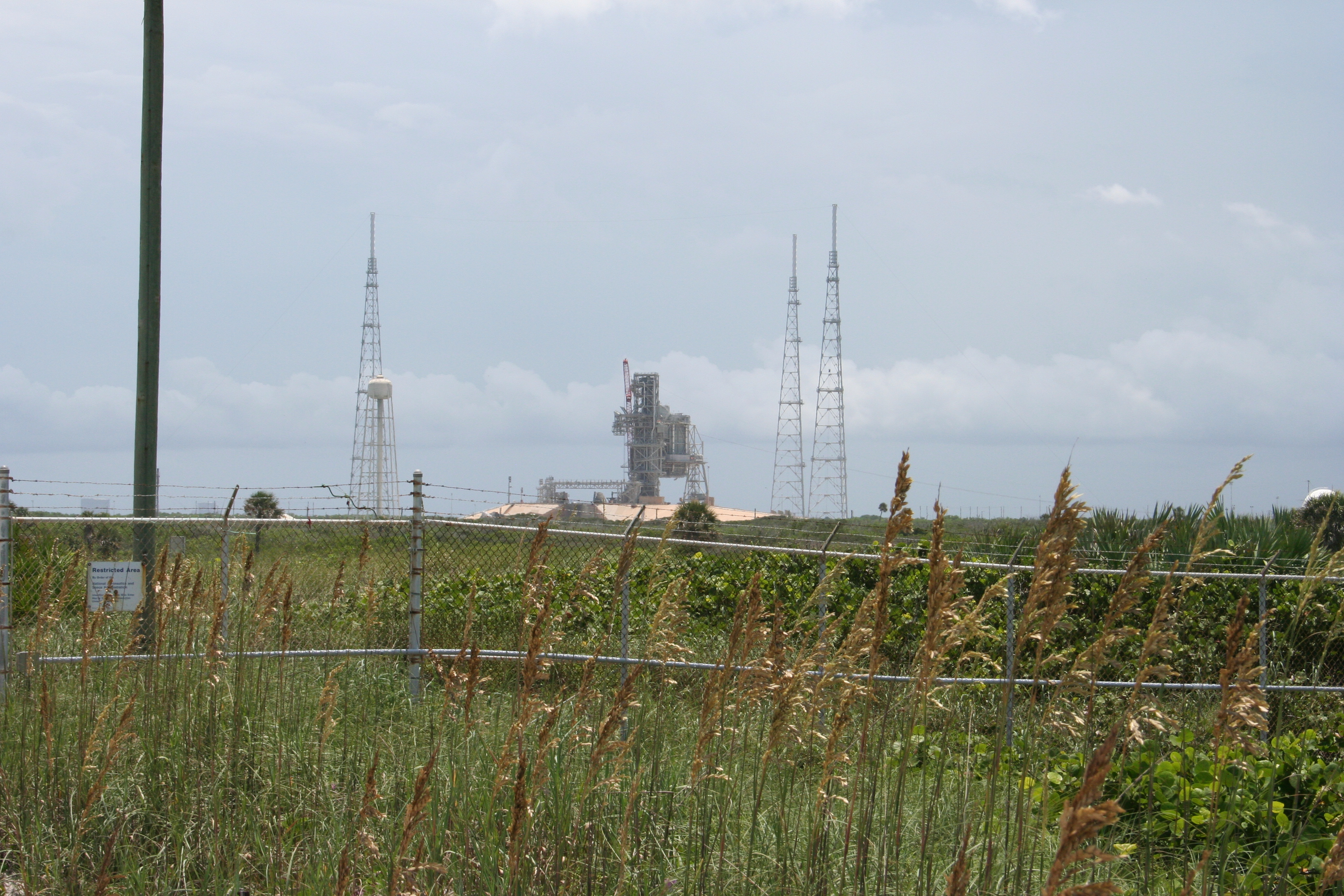 Kennedy Space Center Launch Complex 39-B with surrounding lightning masts.